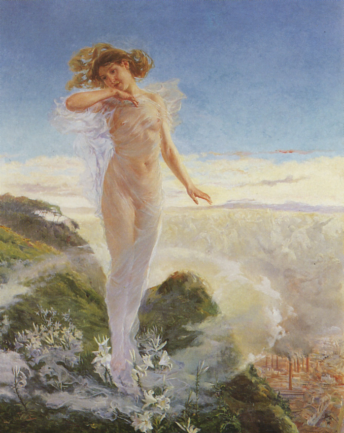 Luciano Freire, Country Perfume, 1899, oil on canvas, 199 x 160 cm